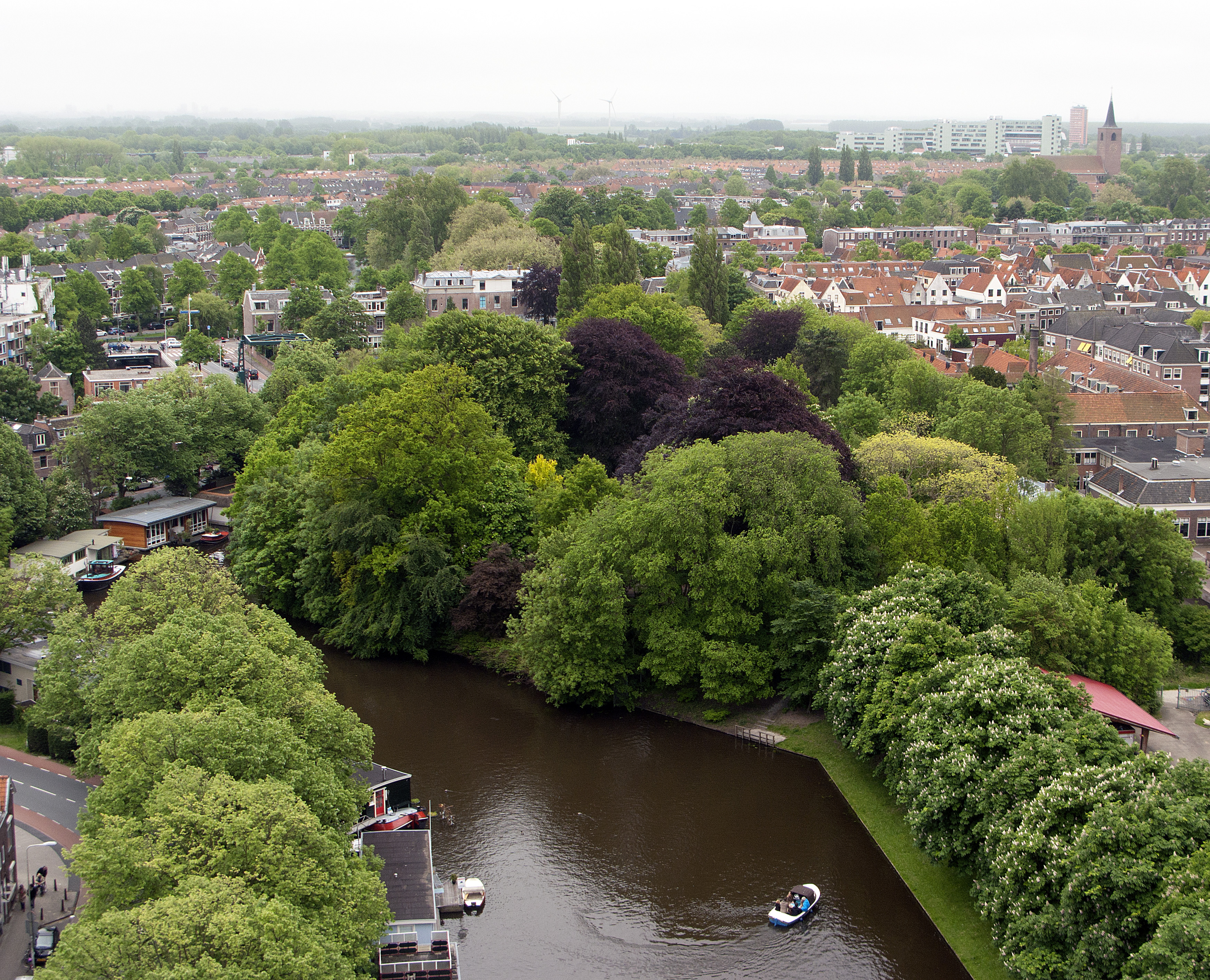 Leiden, view on the cemetery Groenesteeg from the roof of the Meelfabriek (Flour factory)